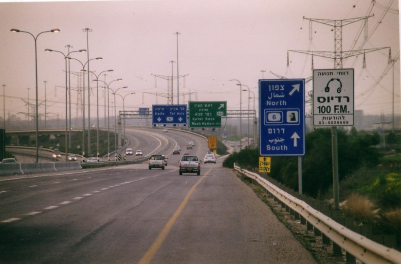 Kesem Interchange, Road No. 5, Israel